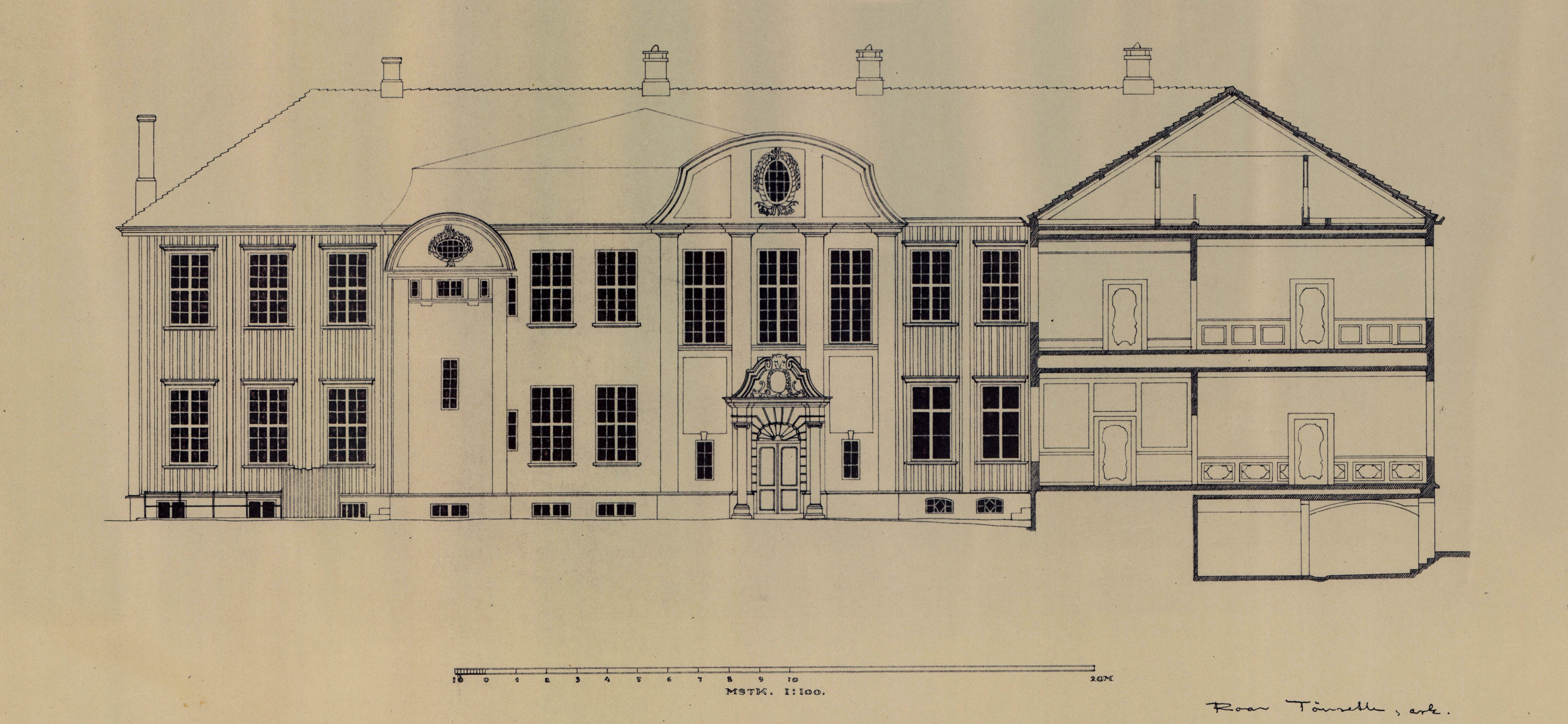 South facade of the building «Harmonien» in Trondheim, Norway. The building was erected around 1769–1773